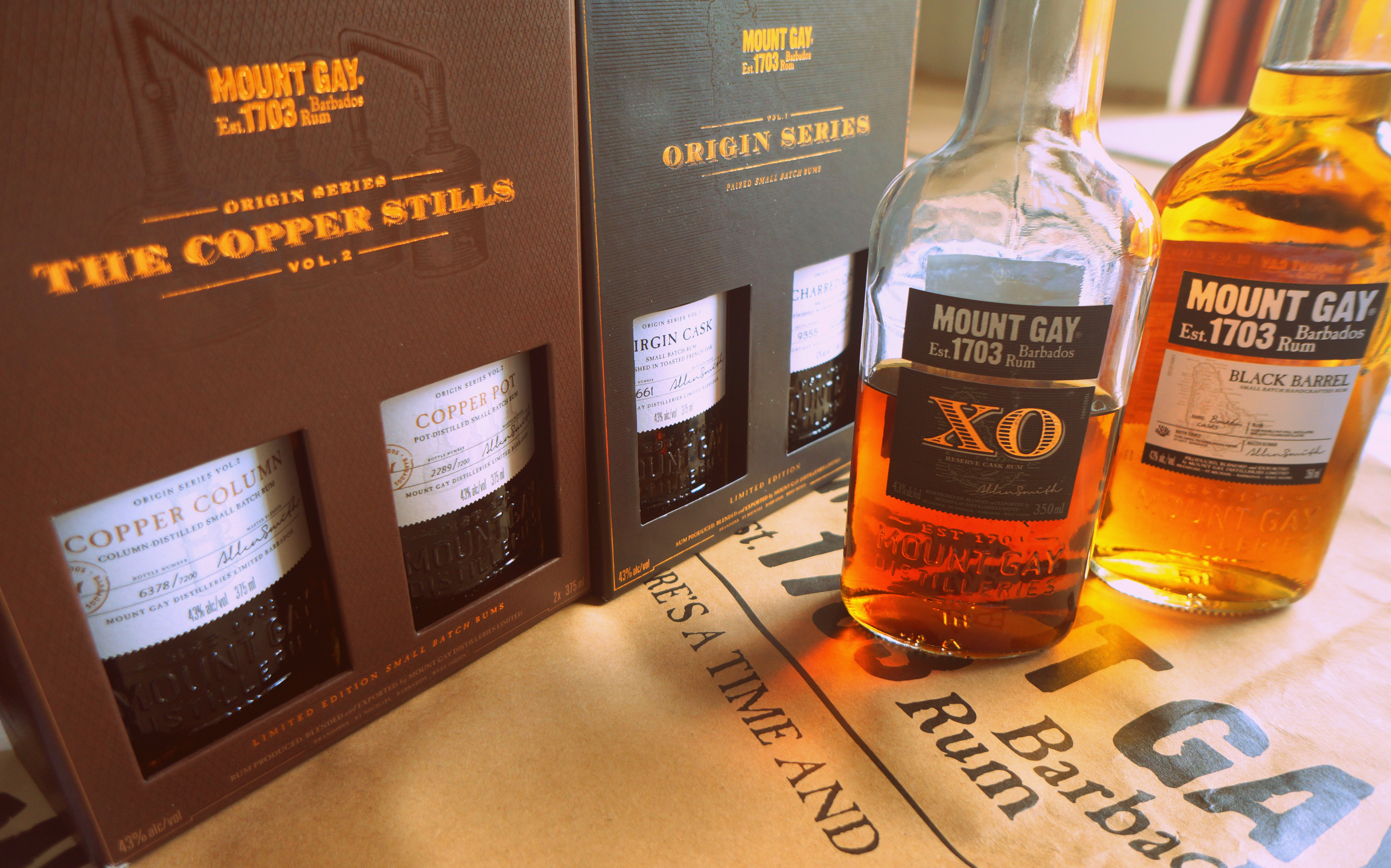 Mount Gay Distilleries Origin Series Volume One and Volume Two, Black Barrel and XO.